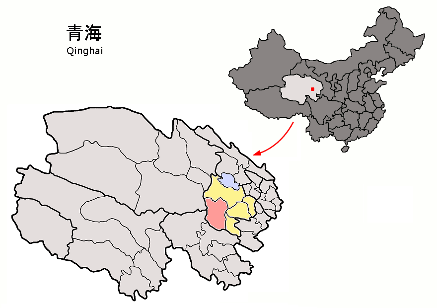 Location of Xinghai County (pink) and Hainan Prefecture (yellow) within Qinghai province of China Map drawn in september 2007 using various sources, mainly : Qinghai province administrative regions GIS data: 1:1M, County level, 1990 Qinghai Counties map from "Plateau Perspectives" (the limits of some county-level subdivisions may not be accurate)